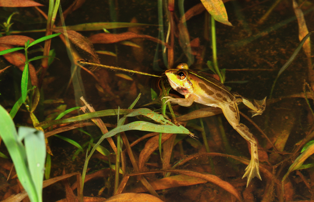 Adult male in water from Manipal by Seshadri K S DSC 7143 copy